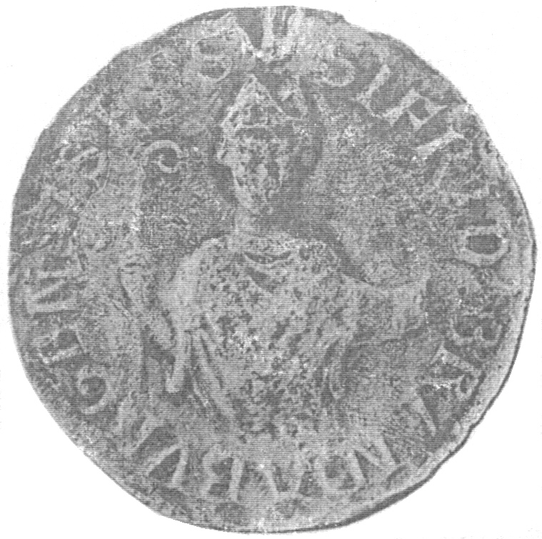 The seal from Siegfried I. from Brandenburg, out of the year 1173. The lettering sing says SIFRID[VS] BRANDABVRGENSIS EP[ISCOPV]S. Omitted letters are shown in parentheses.